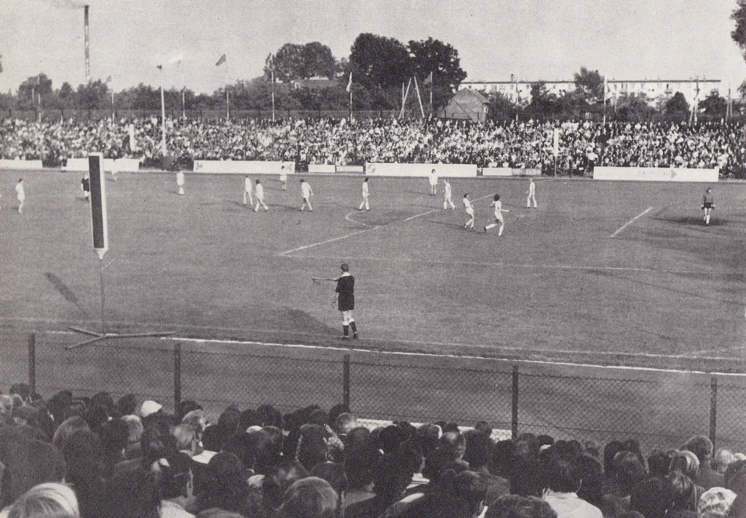 Radom Sport Club Football Stadium